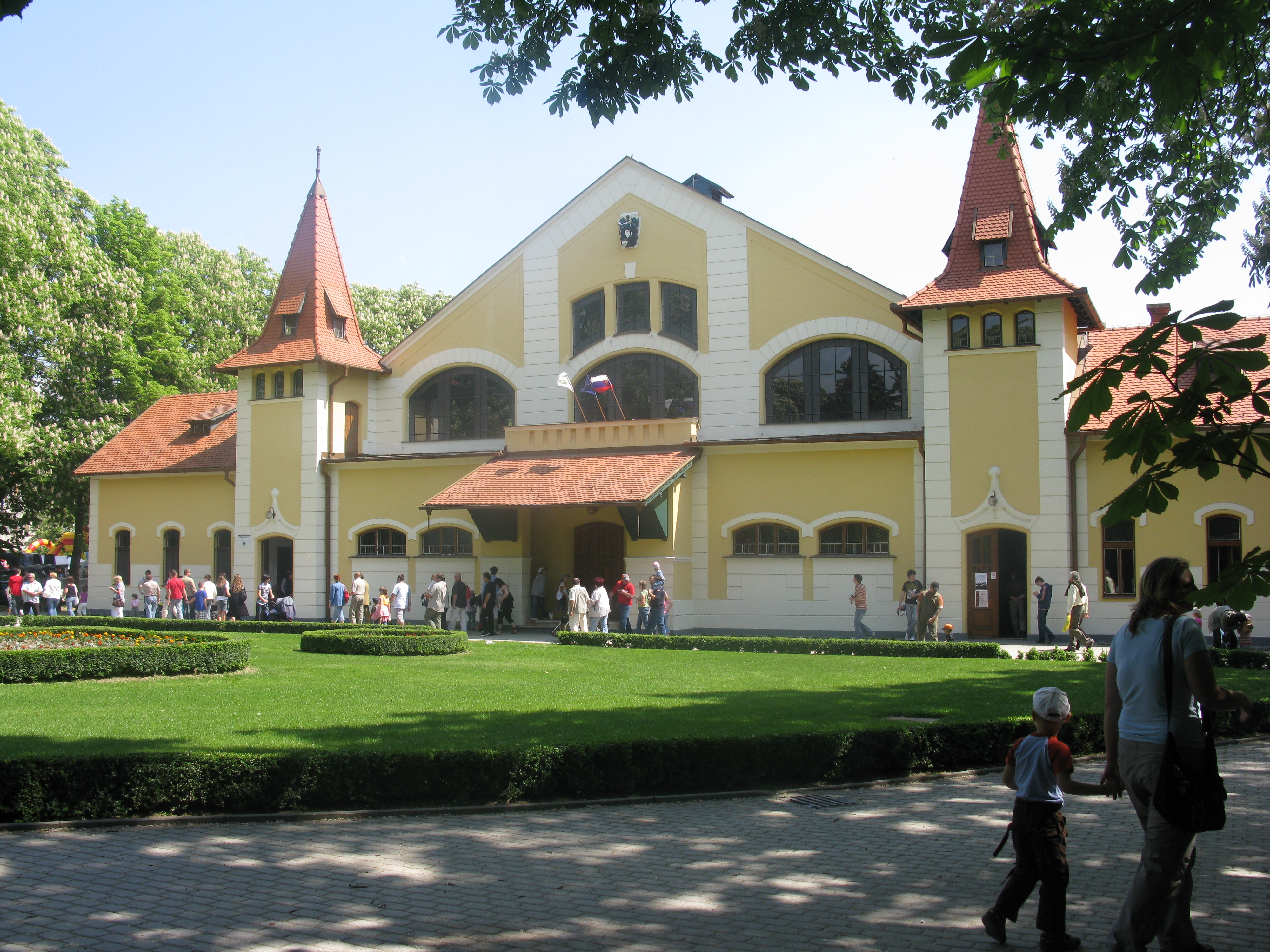 NÁRODNÝ ŽREBČÍN -stable in Topoľčianky